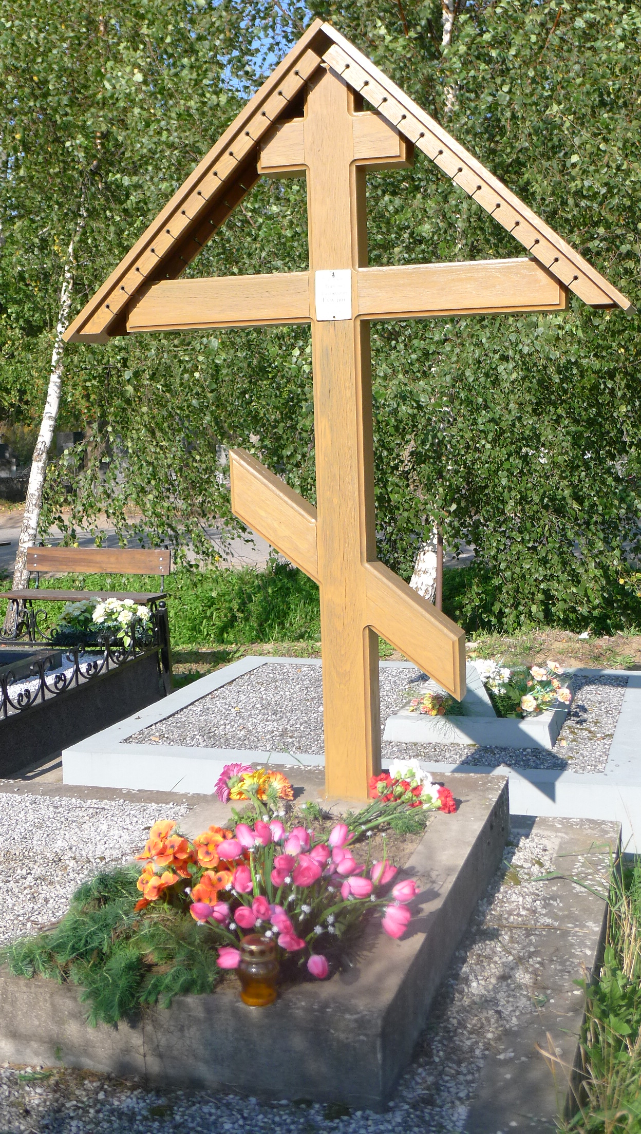 2019, СПб, Ковалёвское кладбище, могила Валентина Владимировича Галузина